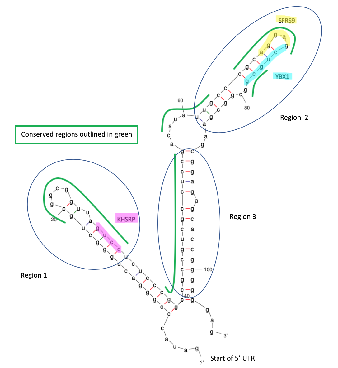 5' UTR of TMEM39B, including RNA-binding proteins and conserved regions.